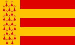 Flag of the Pays Bigouden, in Finistère (Brittany, France).